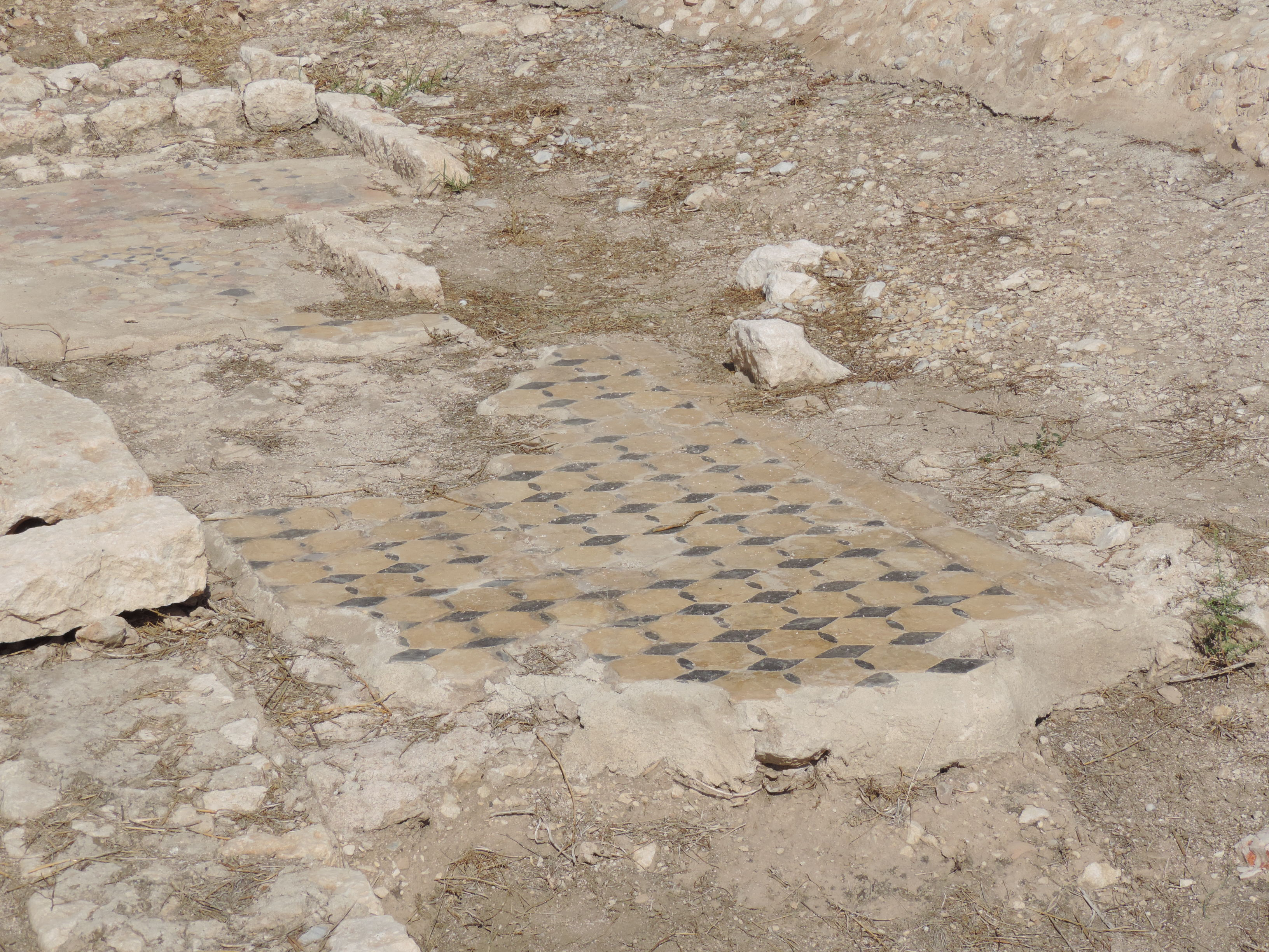 Ancient Roman town Elaiussa Sebaste near modern day Mersin, Turkey - floor mosaics